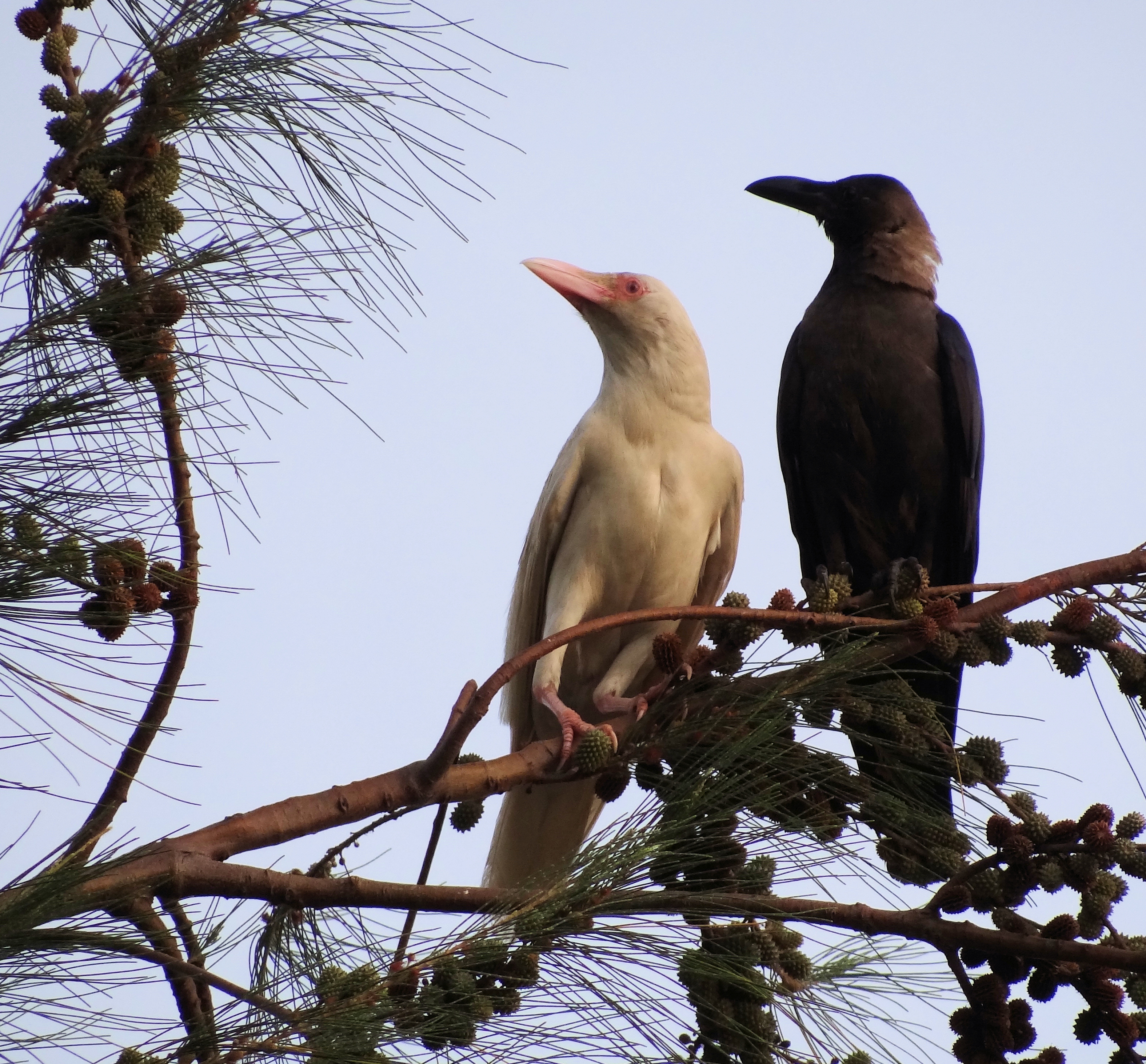 An albino bird photographed in Malacca, Malaysia.